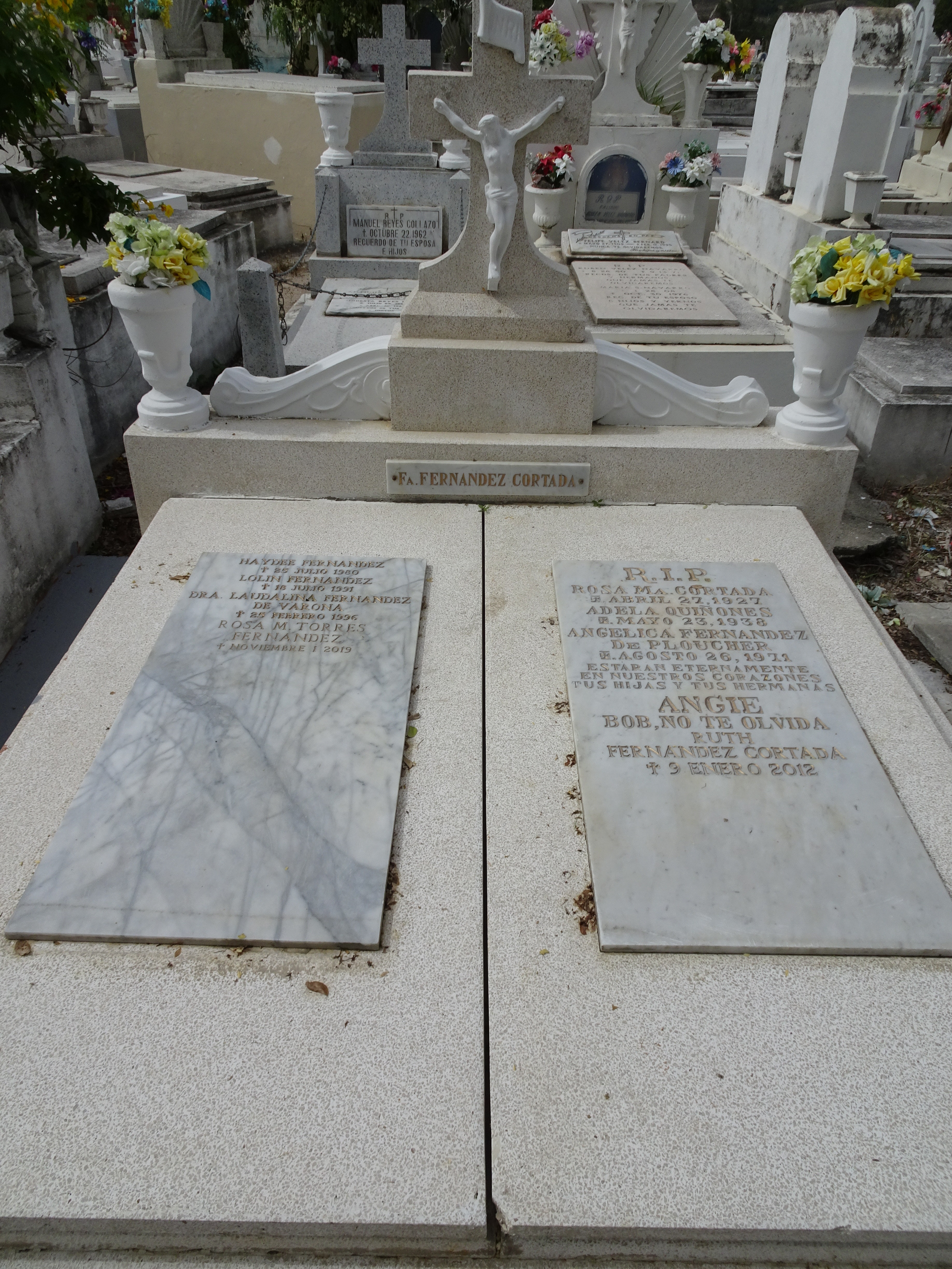 Tumba de Ruth Fernández, Cementerio Civil de Ponce, Bo. Portugués Urbano, Ponce, PR, mirando al oeste (DSC02812)